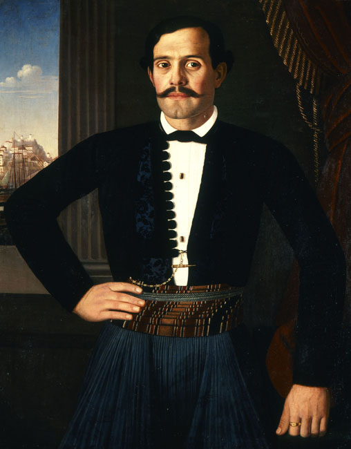 Portrait of Greek naval officer and prime minister Antonios Kriezis